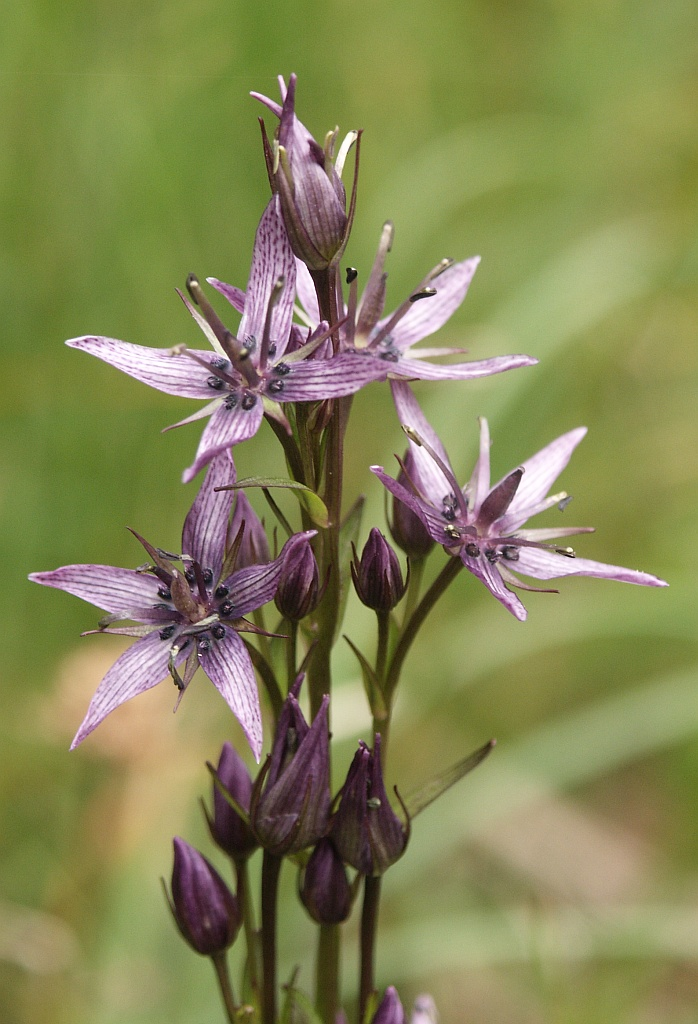 Swertia perennis, Tannheimer Tal, Austria